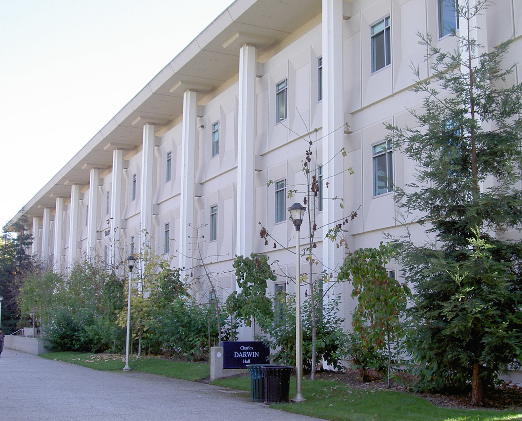 The north side of Charles Darwin Hall on the Sonoma State University campus in Rohnert Park, California, USA.